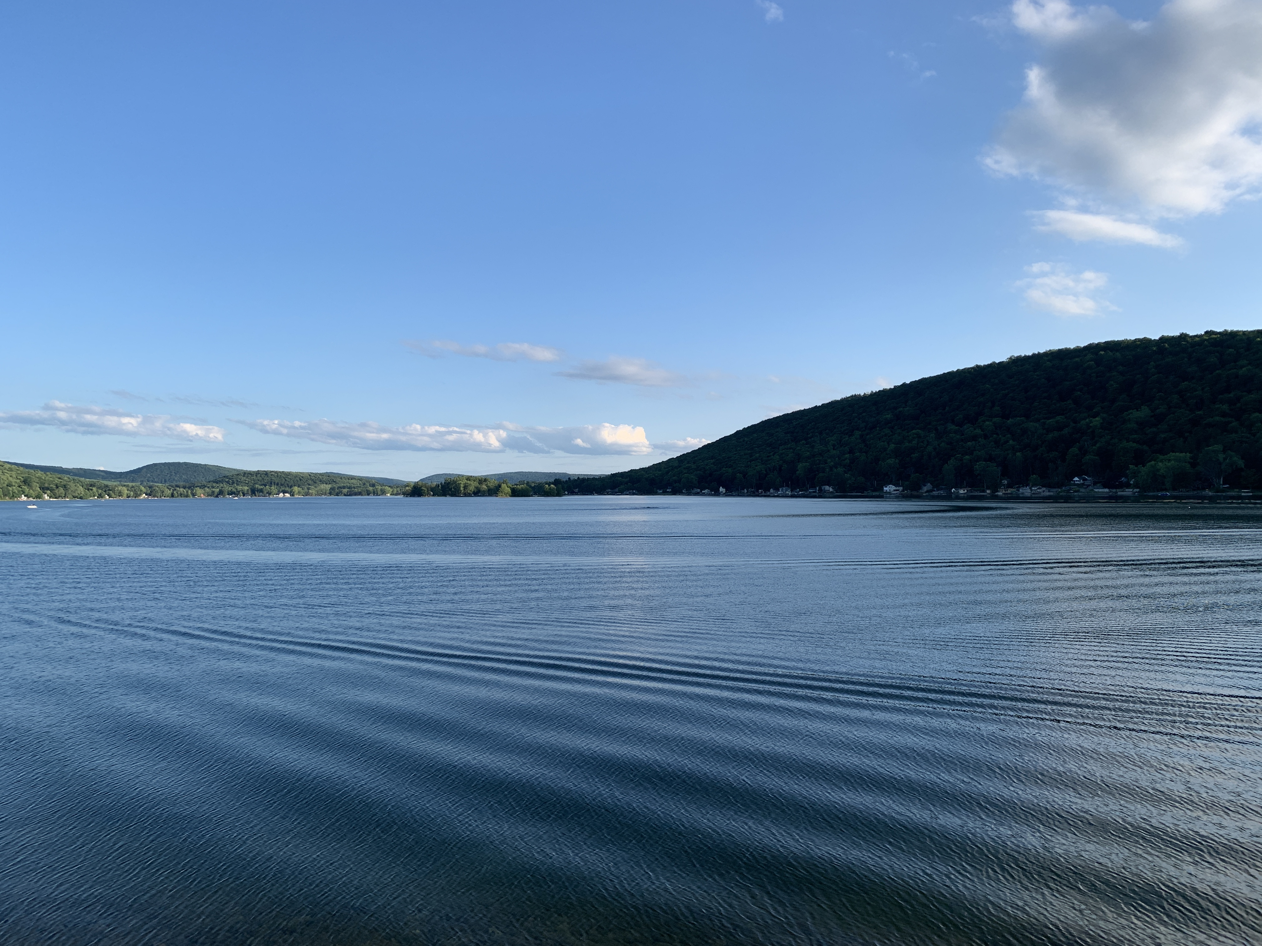 Deruyter Reservoir in Summer 2020